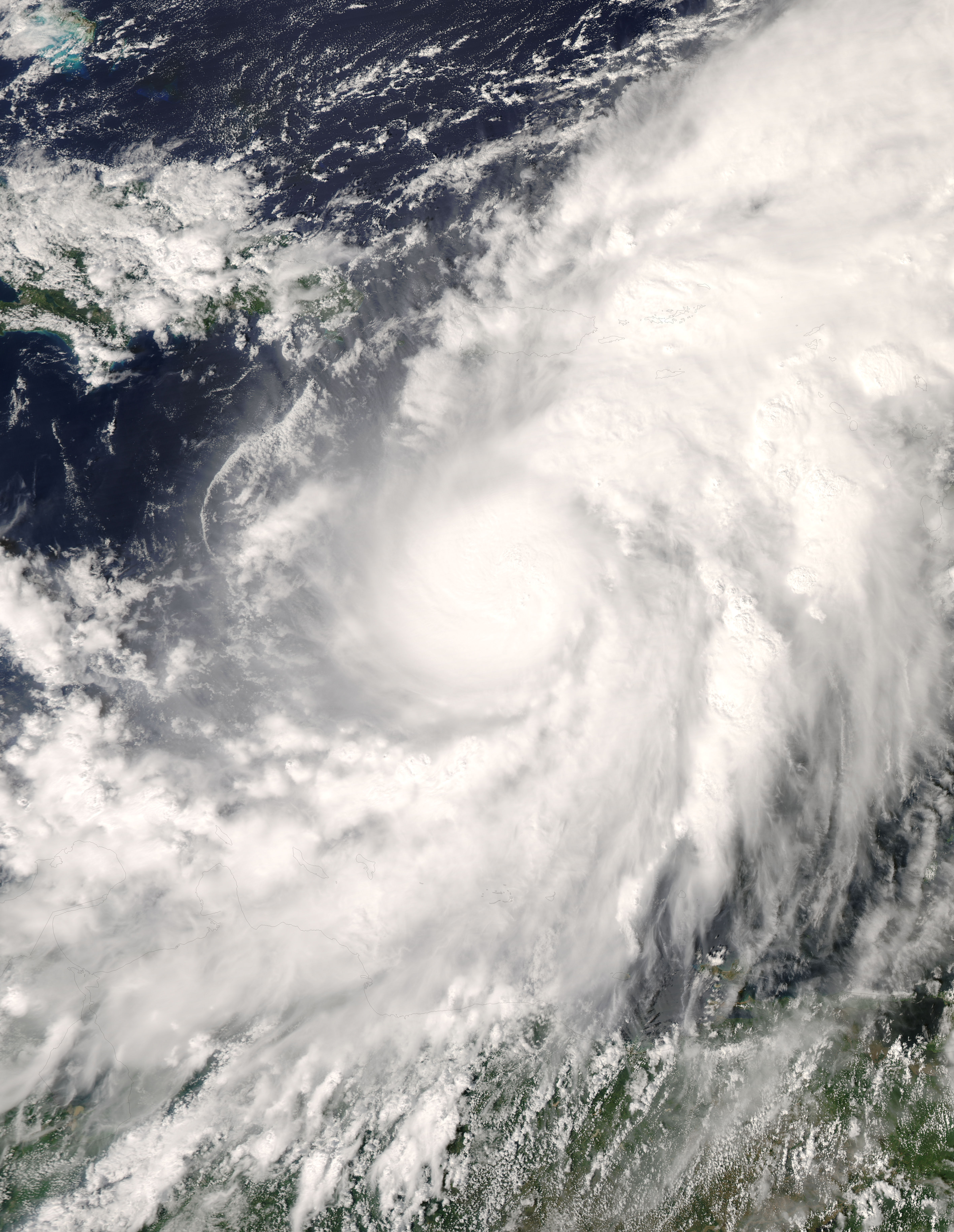 Hurricane Omar (15L) in the Caribbean Sea as seen from the Aqua satellite.